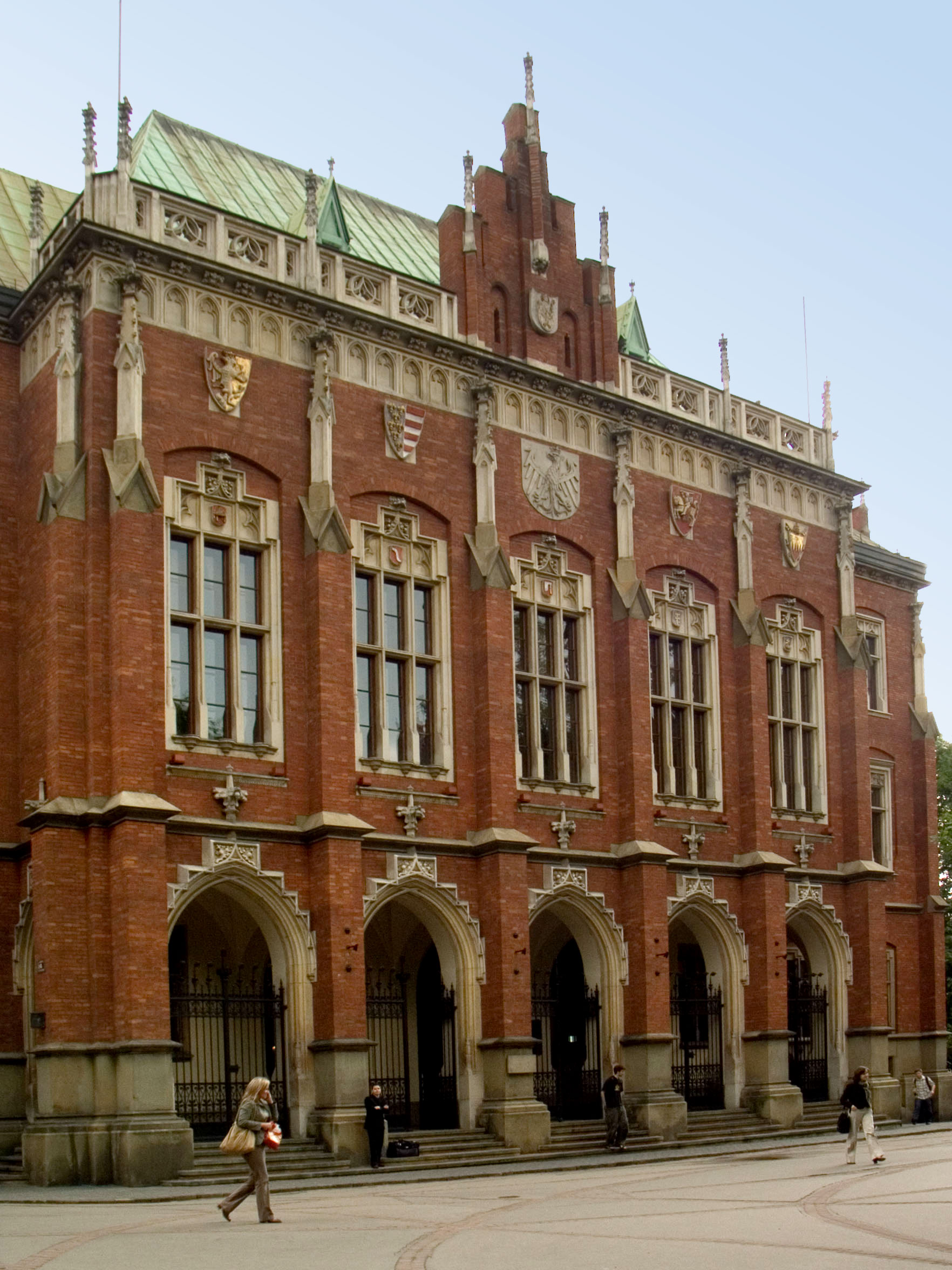 Collegium Novum, Jagiellonian University, Krakow.